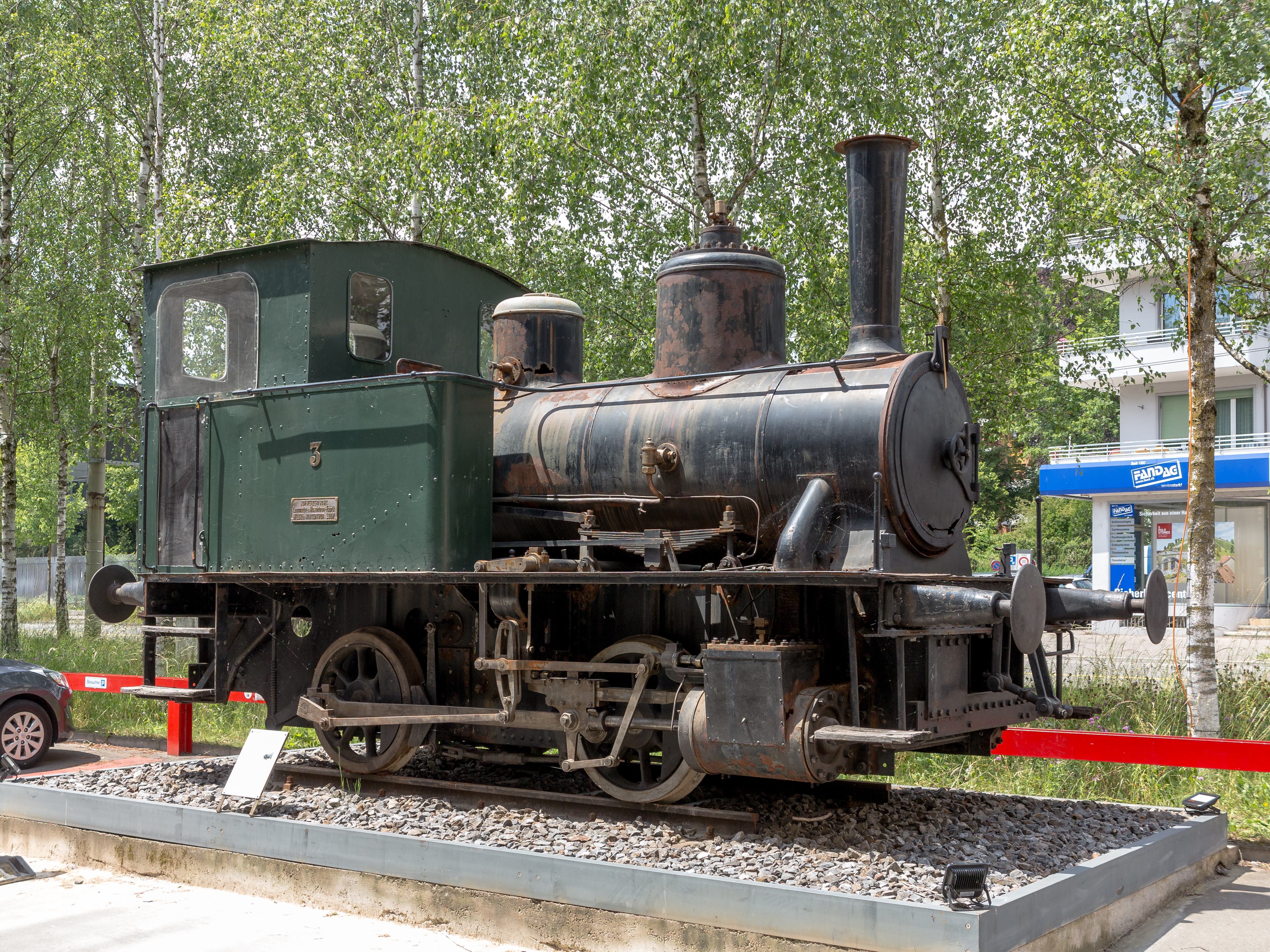 Sulzer Rangierlok E 2/2 N° 3 , Baujahr 1907, als technisches Denkmal an der Zürcherstrasse in Winterthur.